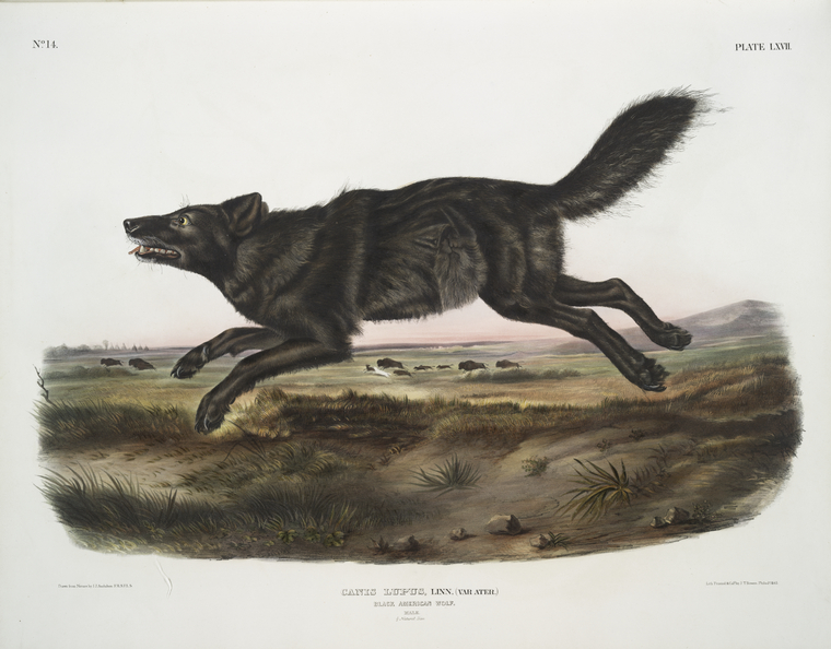 An illustration of a Florida Black Wolf as drawn by James Audubon from The Viviparous Quadrupeds of North America by John James Audubon and John Bachman, originally published in three volumes (1845-1848).